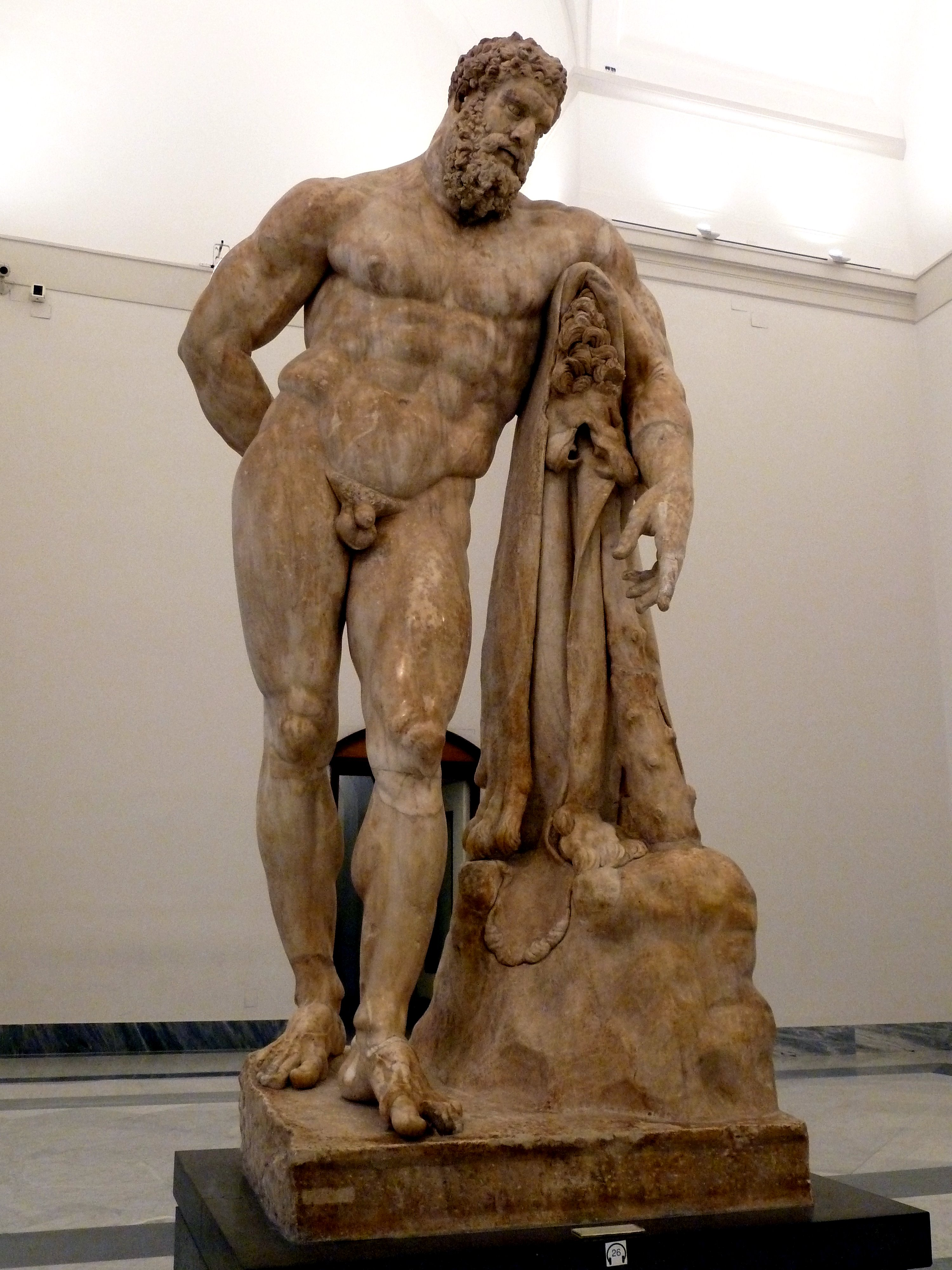 Hercules at rest. Roman copy, end 2nd - early 3rd C AD, from Greek original of second half 4th C BC. (Farnese Hercules)